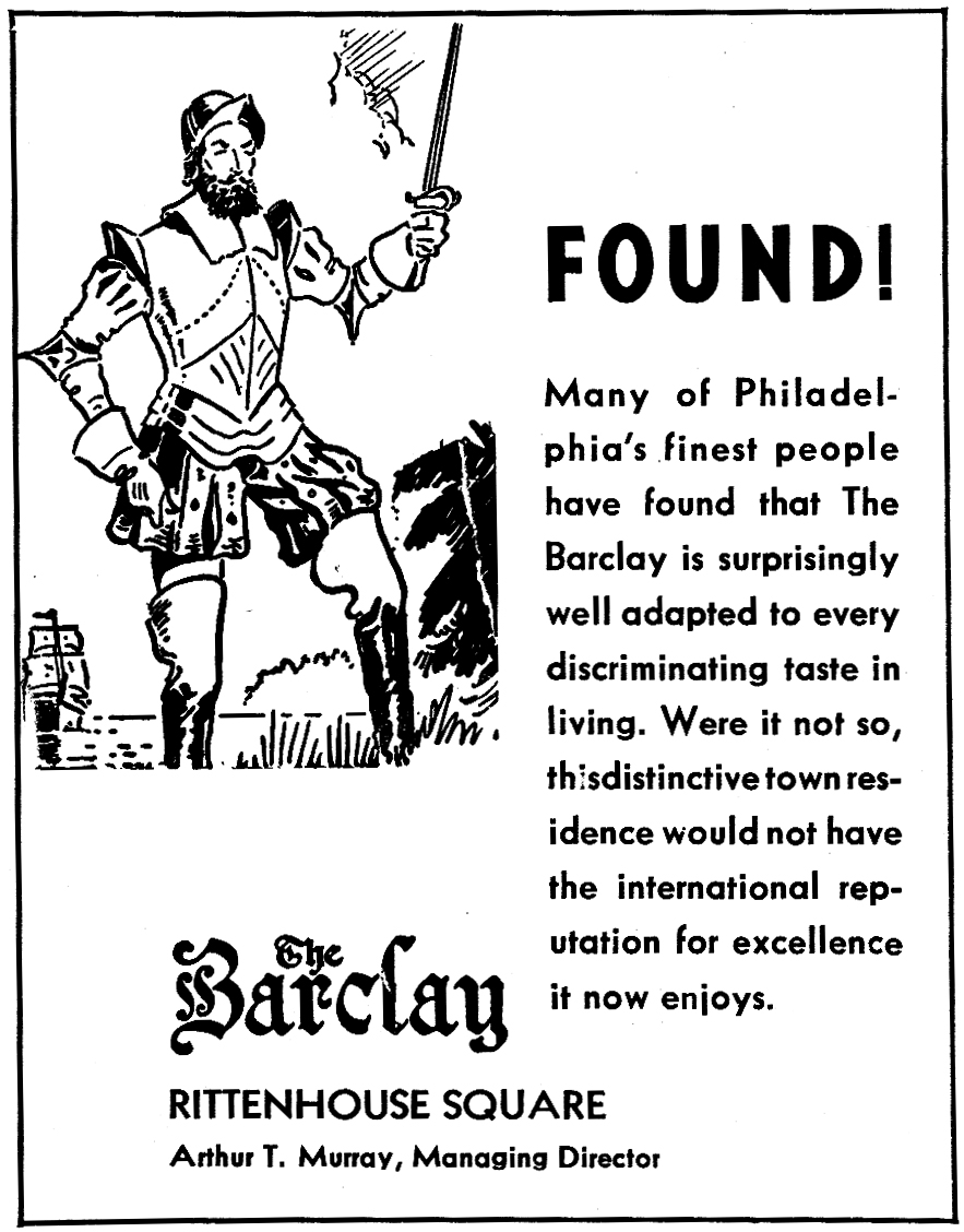 The Barclay Hotel, Philadelphia, PA display advertisement